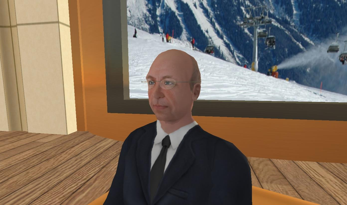 Second Life Avatar of Klaus Schwab, Founder and Executive Chairman of the World Economic Forum. Copyright World Economic Forum